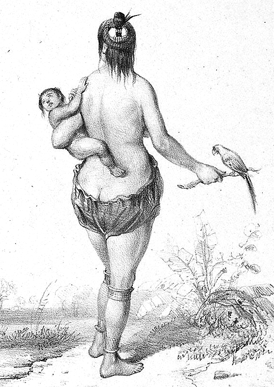 Carib woman in traditional dress, typically cotton pants.